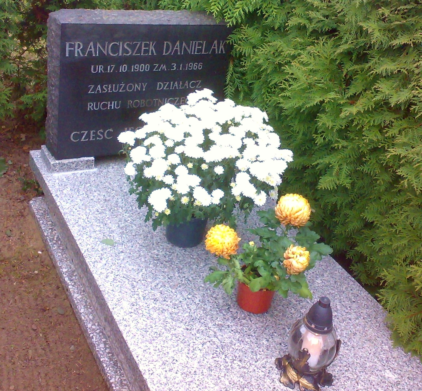 Fr. Danielak Tomb, Poznan, Junikowo Cemetery.